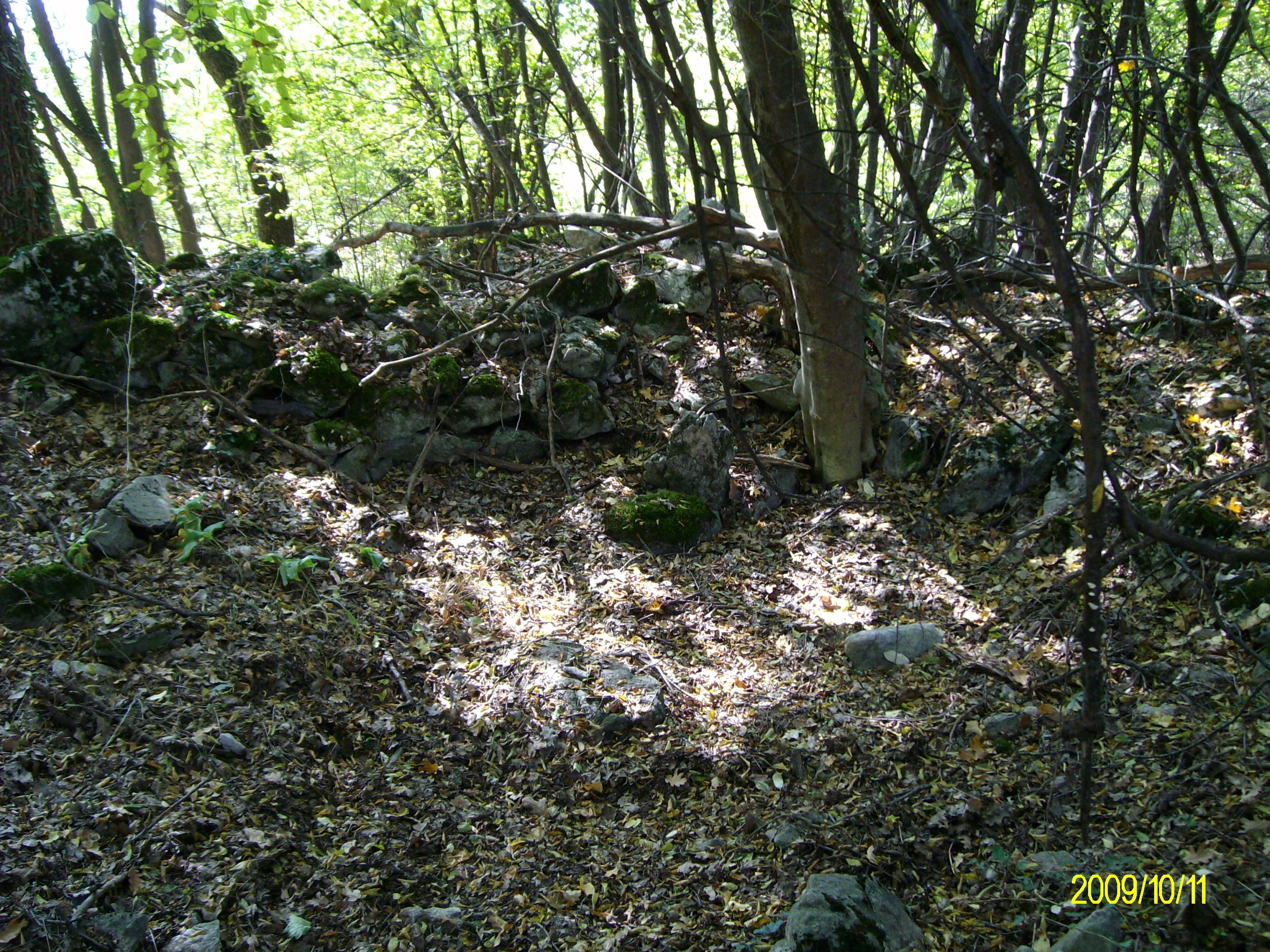 This photo was uploaded during the creation of the first wikitown in Bulgaria – WikiBotevgrad.